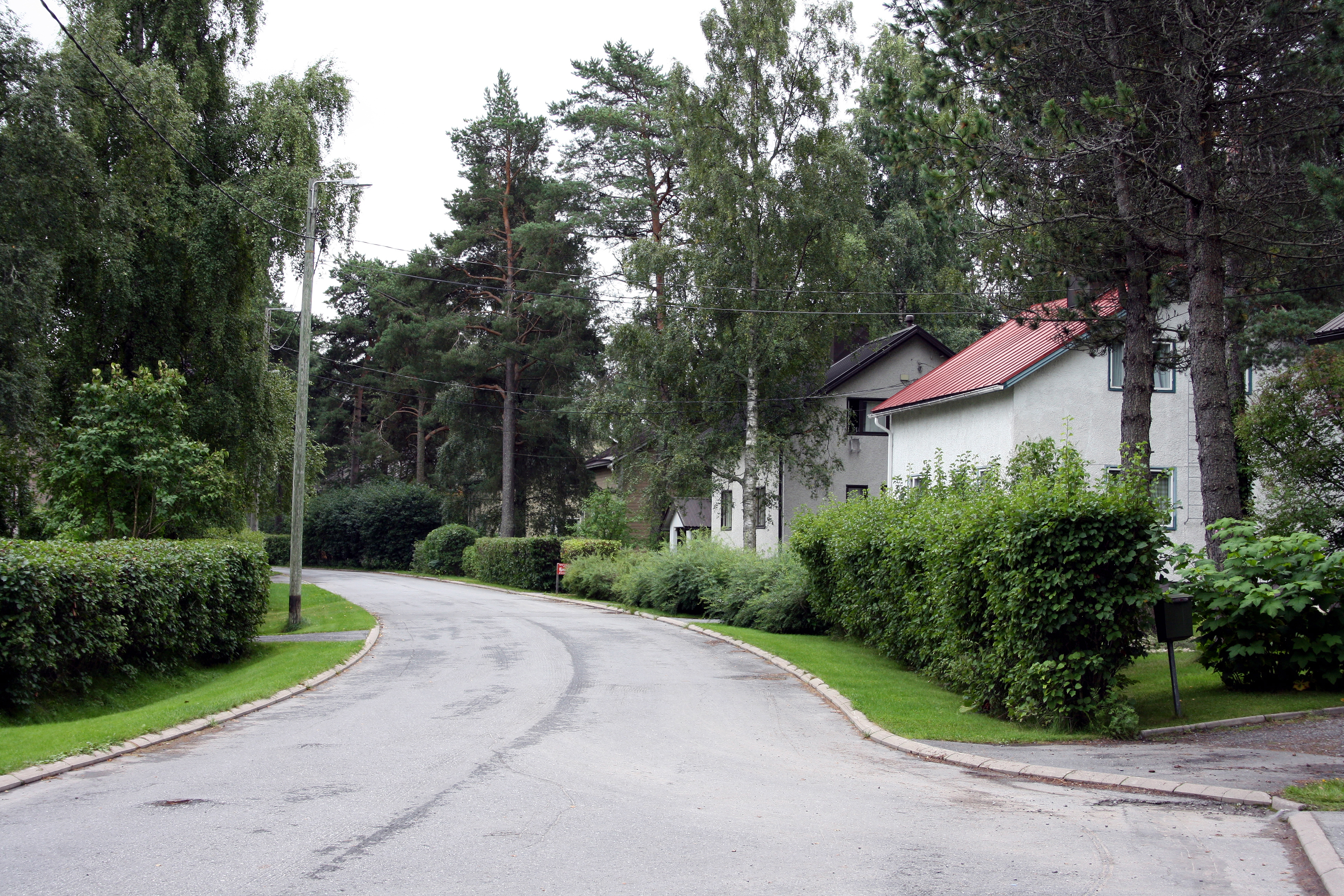 Tullimäki in Kokkola, Finland.